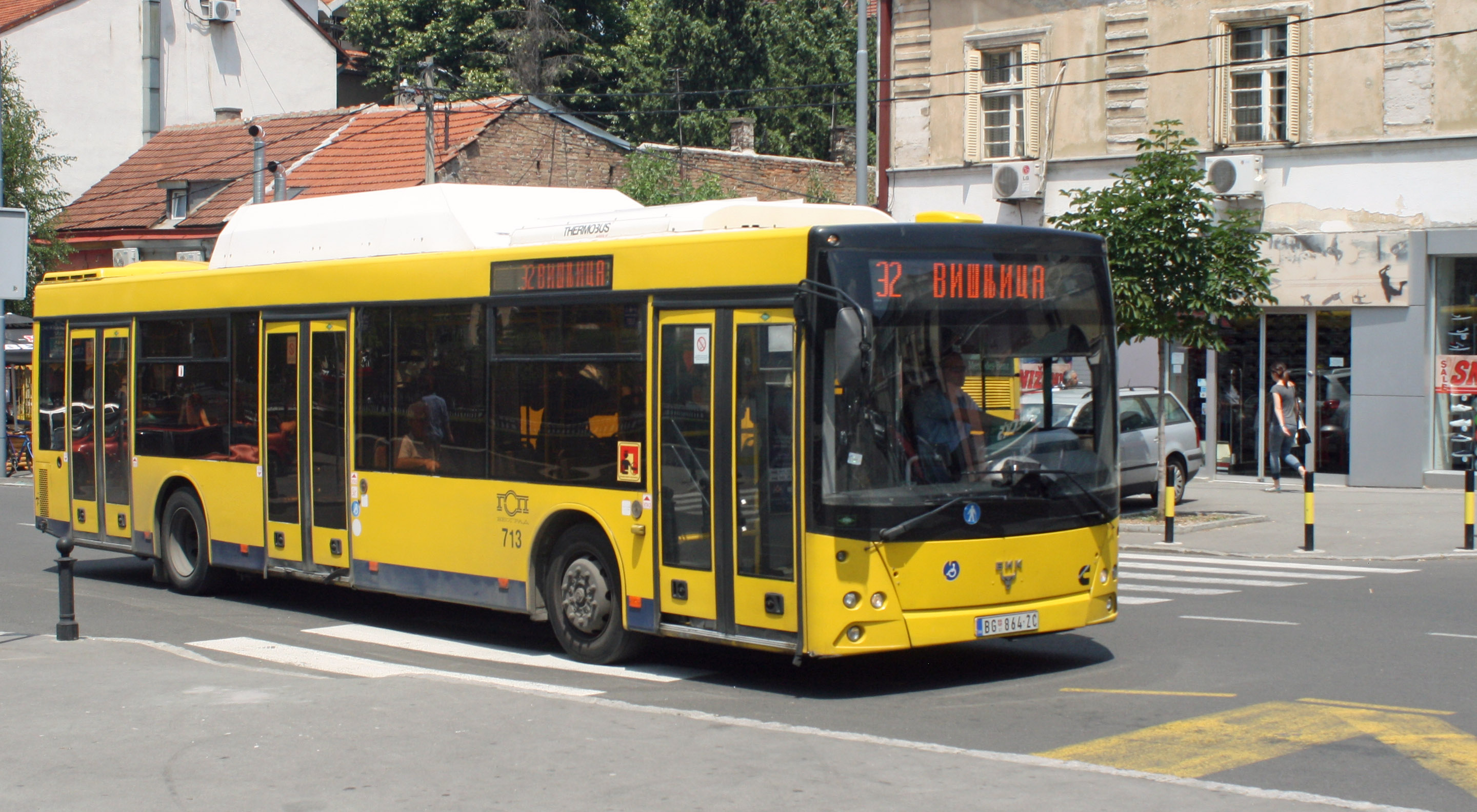 BIK 203 CNG (MAZ-203 bus produced under license in Kragujevac, Serbia) citiy bus no. 713 of GSP Beograd publc transport company on line 32 in Belgrade.